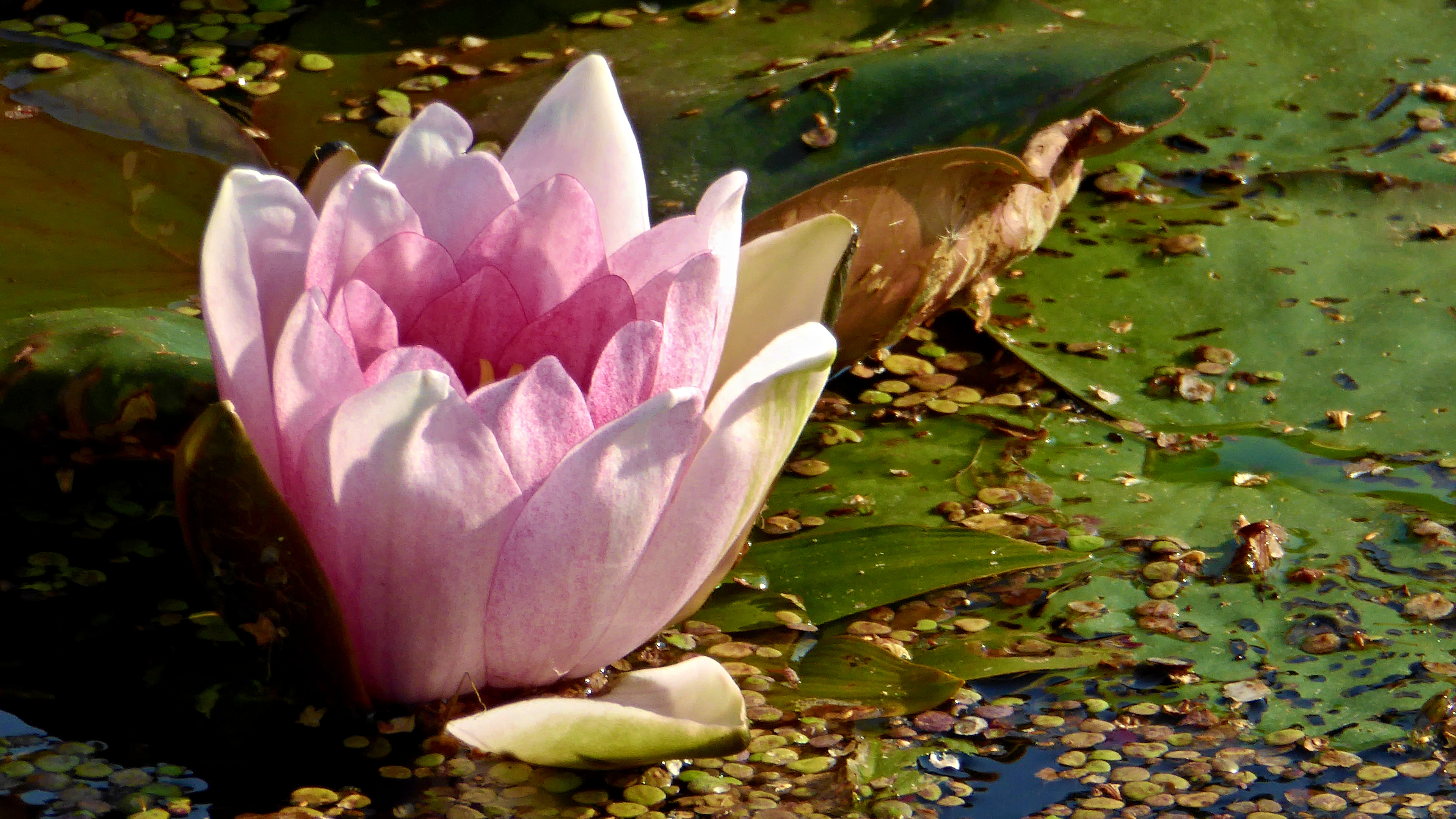 Natural Monument "Ratajské" ponds and locality of European importance in the Czech Republic. Water lily on the pond. Cultivar with pink flower. Photo location: Czechia, Pardubice Region, Hlinsko town.